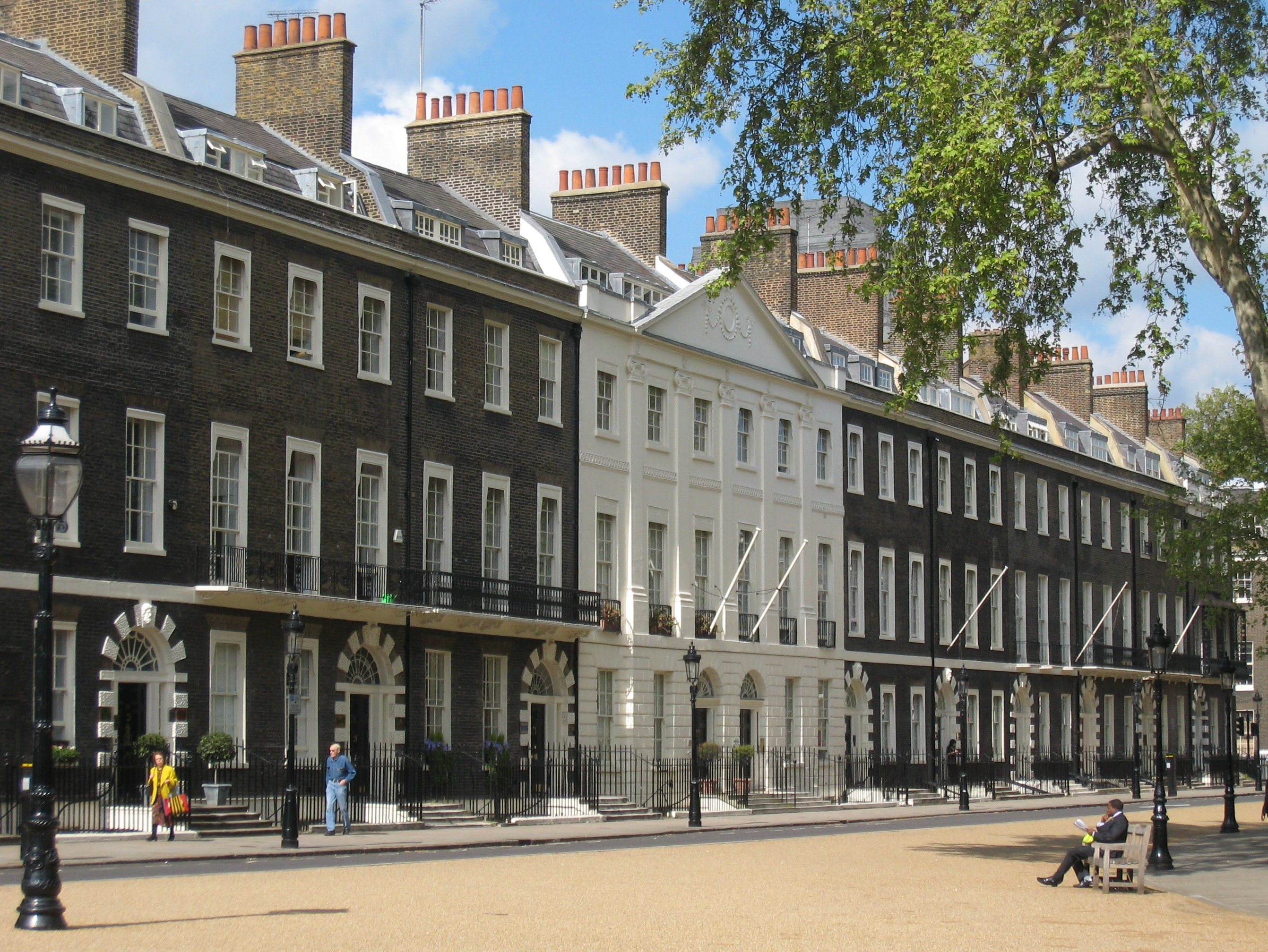 AA bedford sq